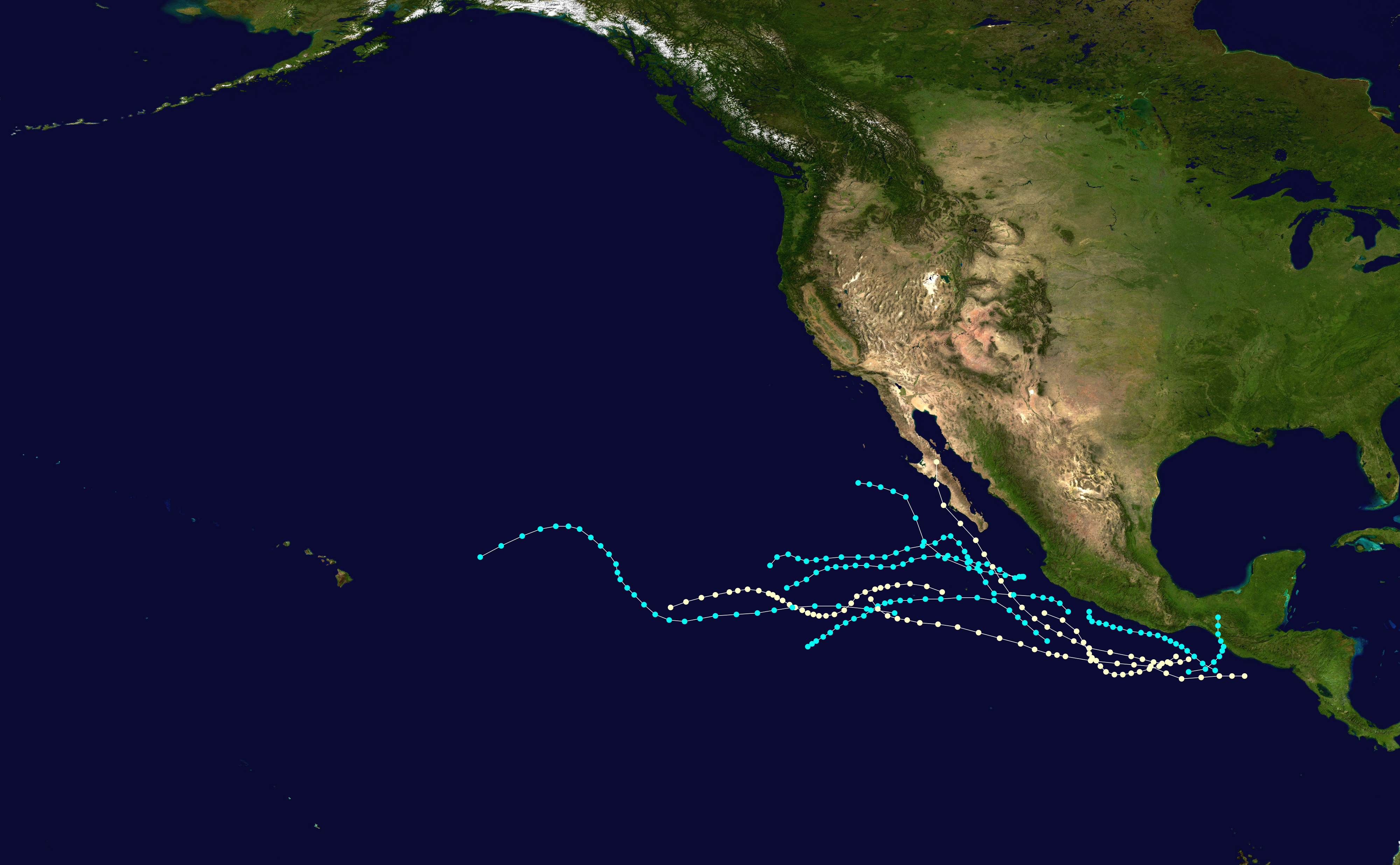 This map shows the tracks of all tropical cyclones in the 1954 Pacific hurricane season. The points show the location of each storm at 6-hour intervals. The colour represents the storm's maximum sustained wind speeds as classified in the Saffir-Simpson Hurricane Scale (see below), and the shape of the data points represent the type of the storm. Saffir–Simpson hurricane wind scale Tropical depression≤38 mph≤62 km/h Category 3111–129 mph178–208 km/h Tropical storm39–73 mph63–118 km/h Category 4130–156 mph209–251 km/h Category 174–95 mph119–153 km/h Category 5≥157 mph≥252 km/h Category 296–110 mph154–177 km/h Unknown Storm typeTropical cycloneSubtropical cycloneExtratropical cyclone / Remnant low / Tropical disturbance